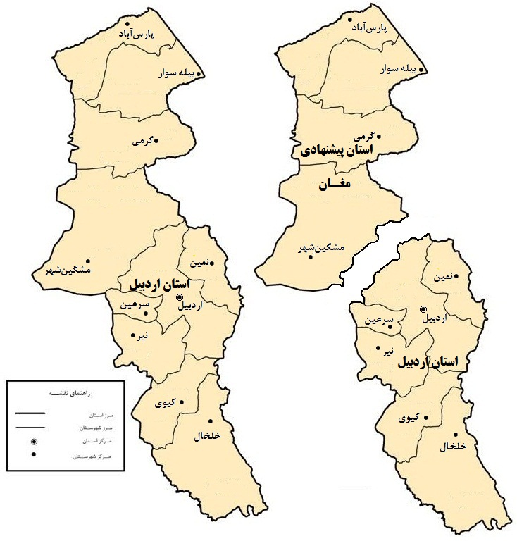 proposal for dividing Ardabil province in Iran